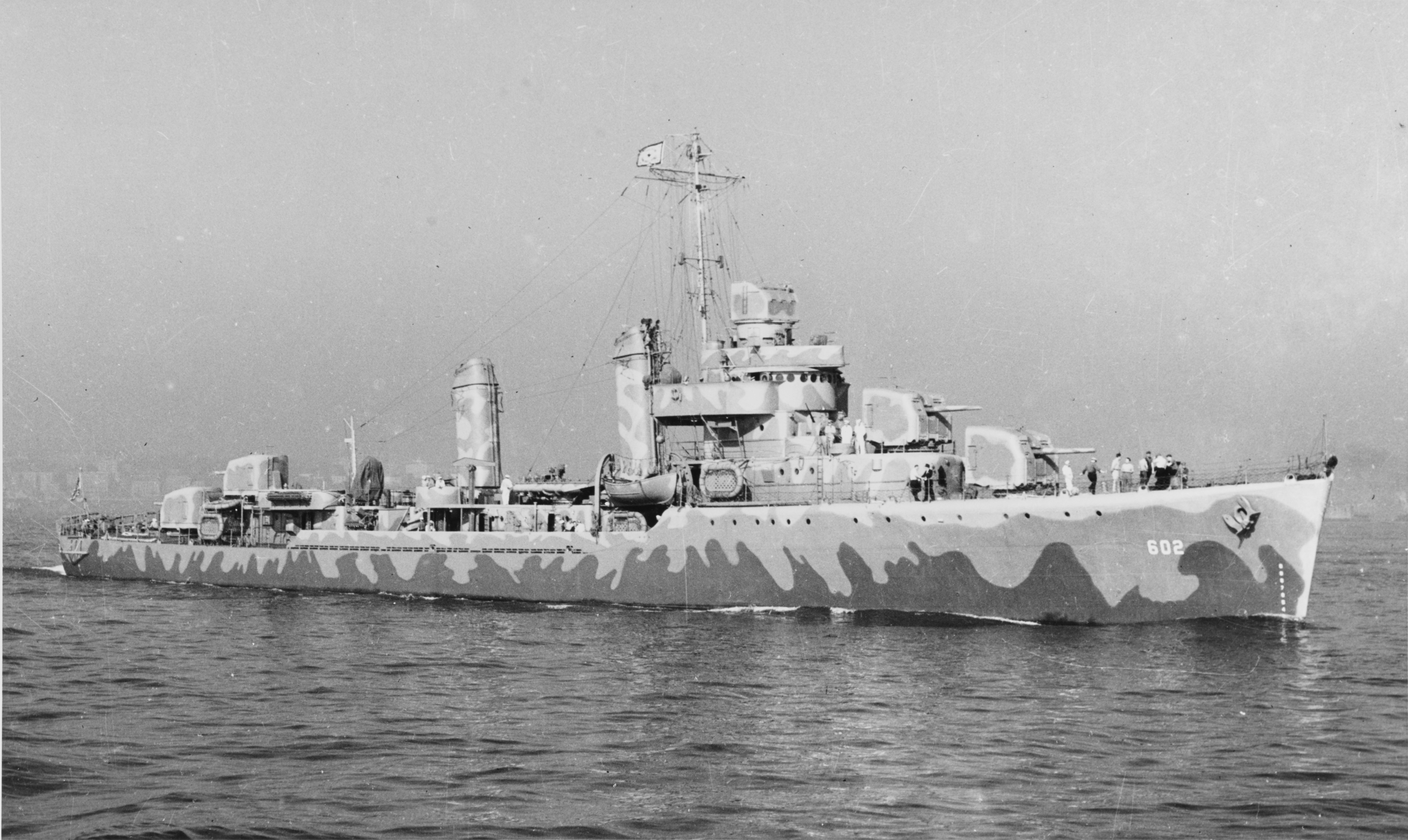 The U.S. Navy destroyer USS Meade (DD-602) off New York City, 20 June 1942, probably during her delivery voyage from the Bethlehem Steel Company shipyard at Staten Island. The ship, which is flying her builder's flag, was commissioned two days later. Note that no radars are fitted, yet, and her Measure 12 (Modified) pattern camouflage. Photograph from the Bureau of Ships Collection in the U.S. National Archives.